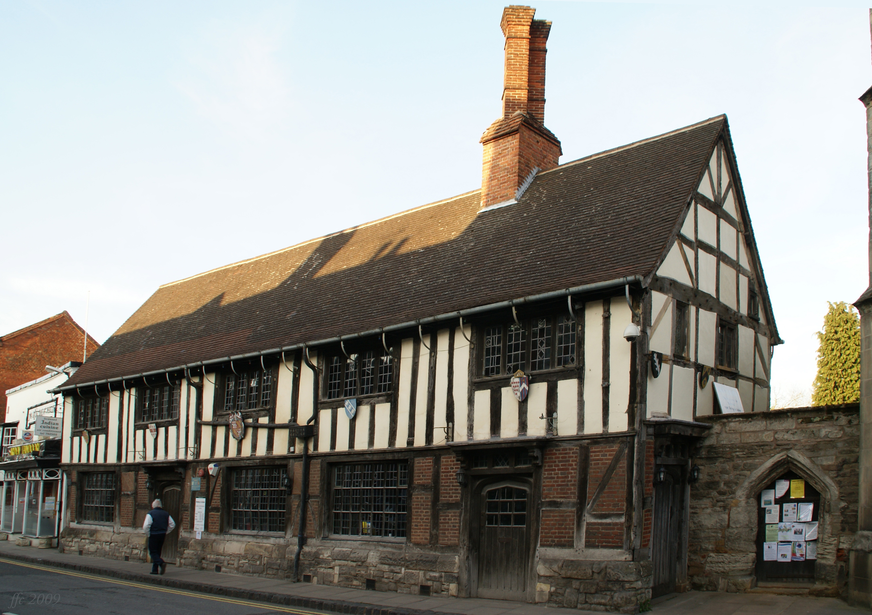 Henley-in-Arden (United Kingdom): Public library